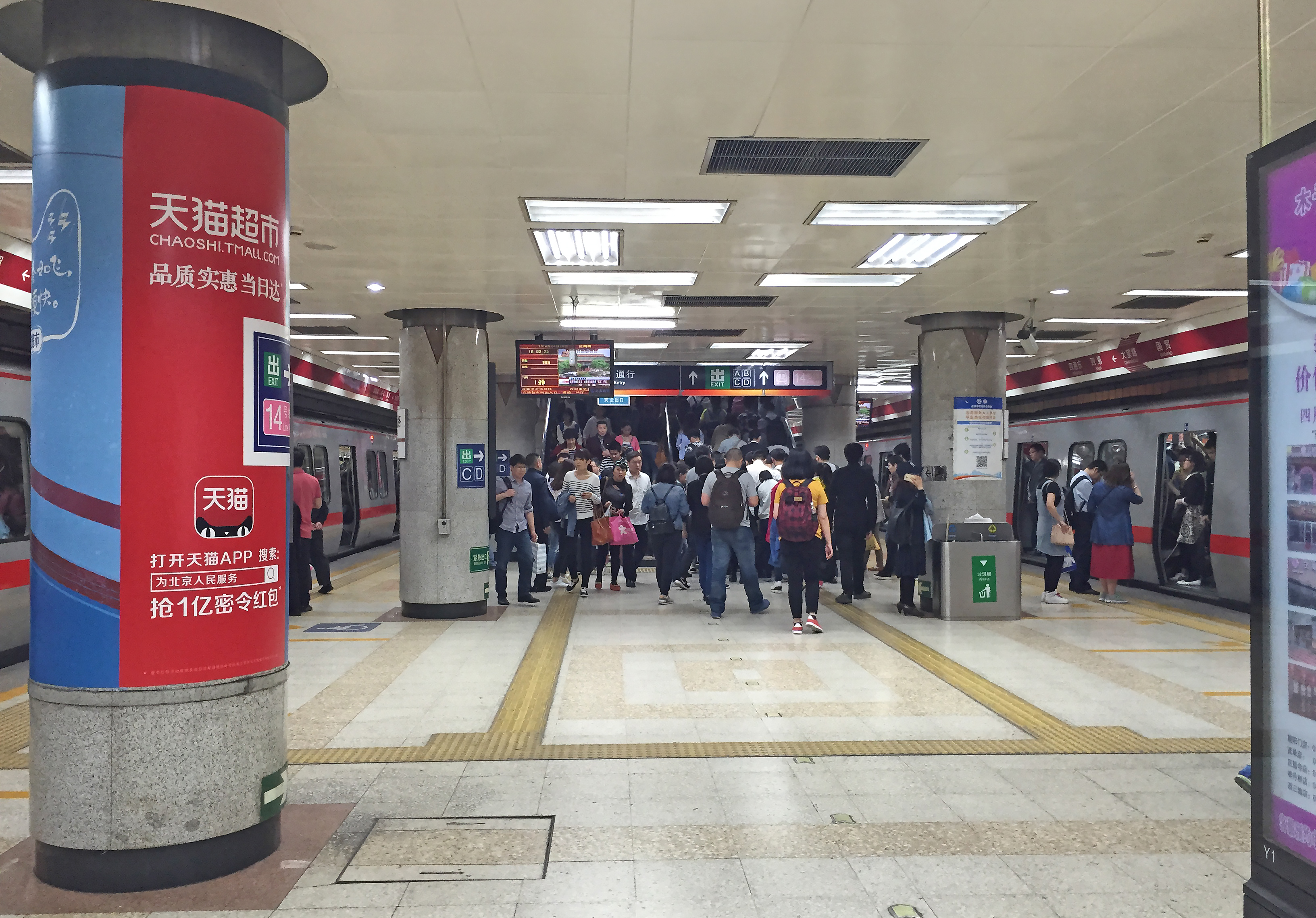 Two DKZ4s at the same station.